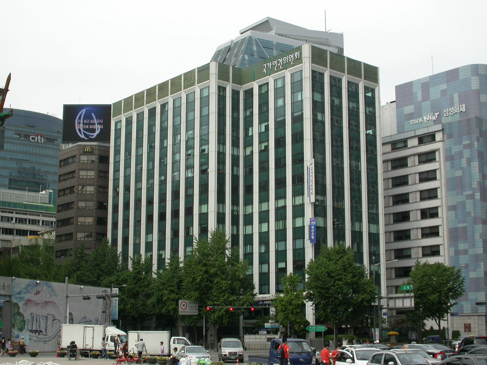 The National Human Rights Commission of the Republic of Korea